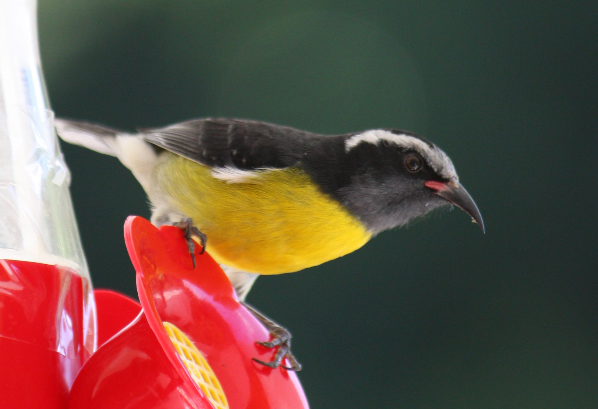 A Bananaquit (Coereba flaveola) perched on a bird feeder in Coulibistrie, Dominica.